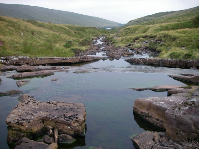 Pool on the Afon Dringarth This delightful river is swallowed up by the Ystradfellte Reservoir a short way downstream. It is home to wagtails and dippers.